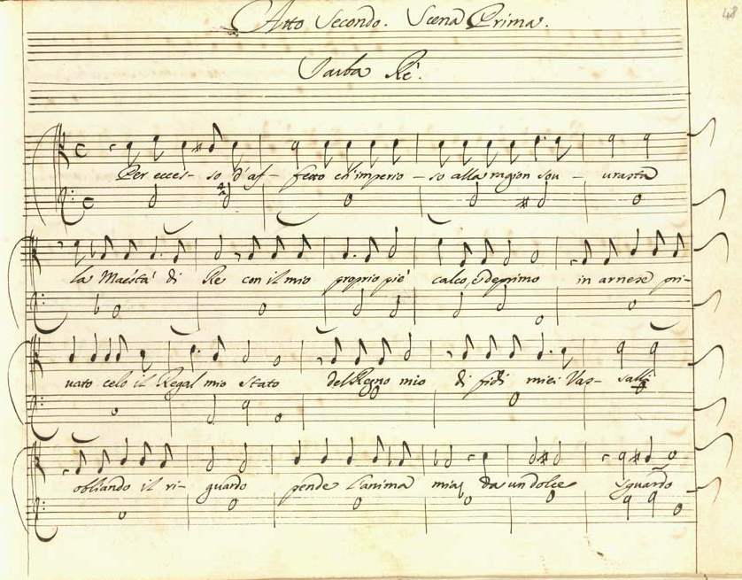 Cavalli - Didone - first page of act 2